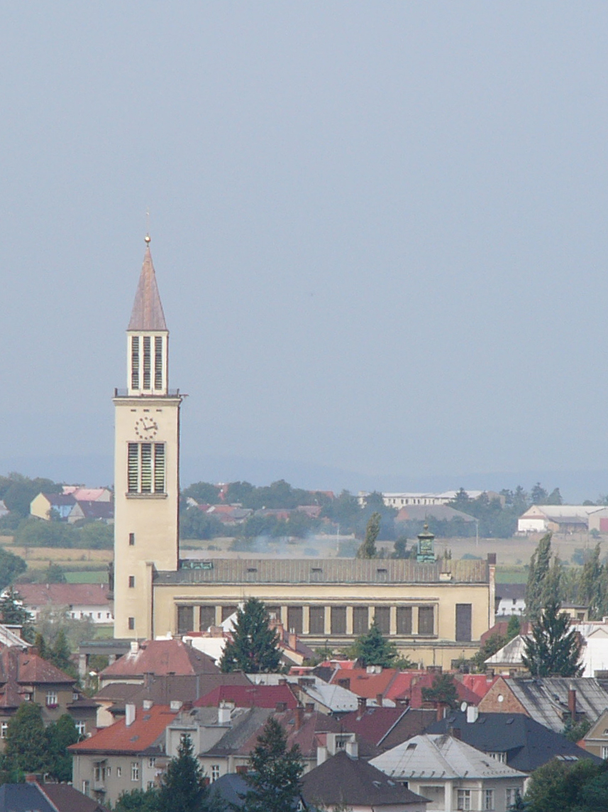 Church of Saint Cyril and Methodius in Olomouc (Czech Republic).